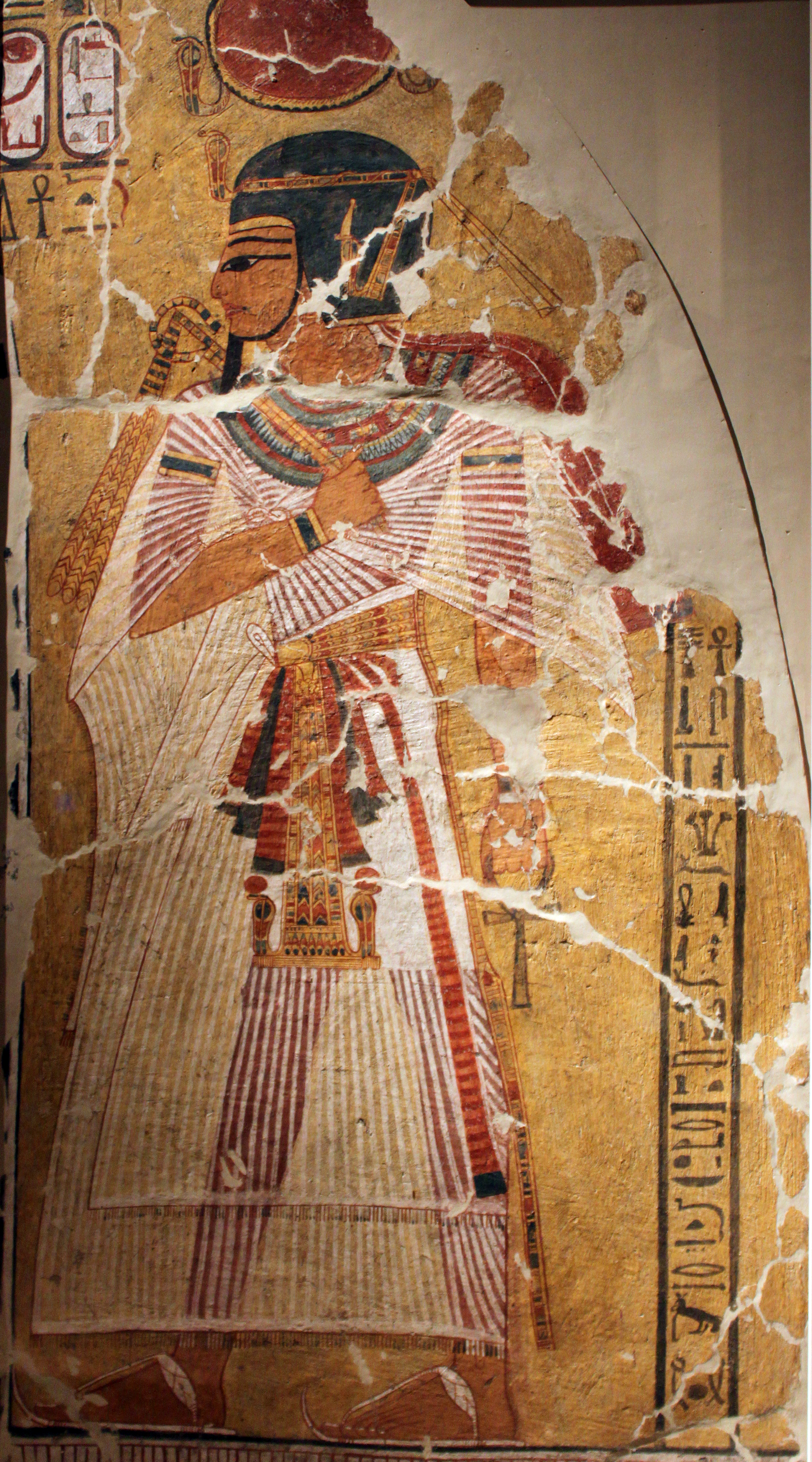 Representation of the defied Pharaoh Amenhotep I